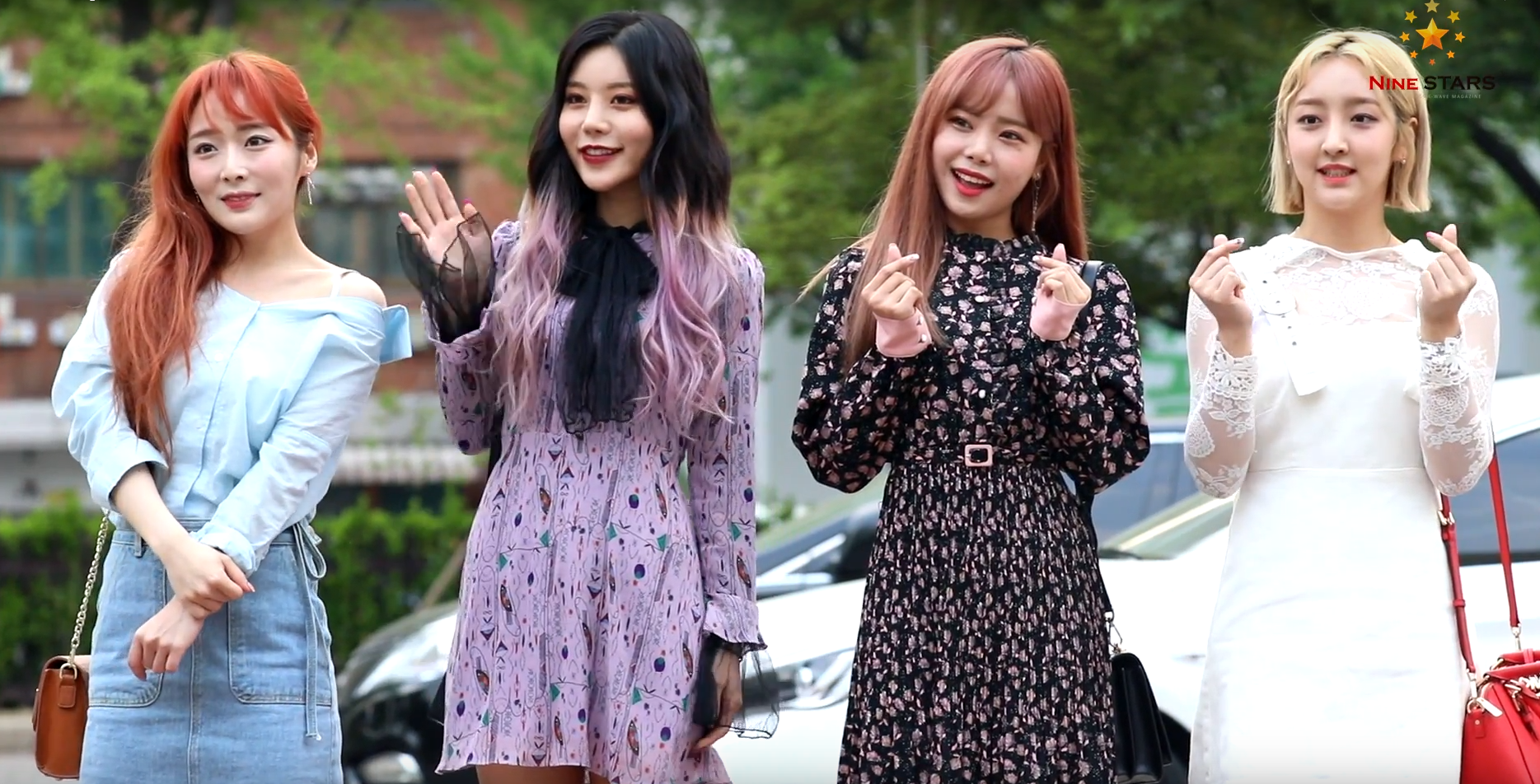 South Korean girl group Badkiz (배드키즈) in April 2018